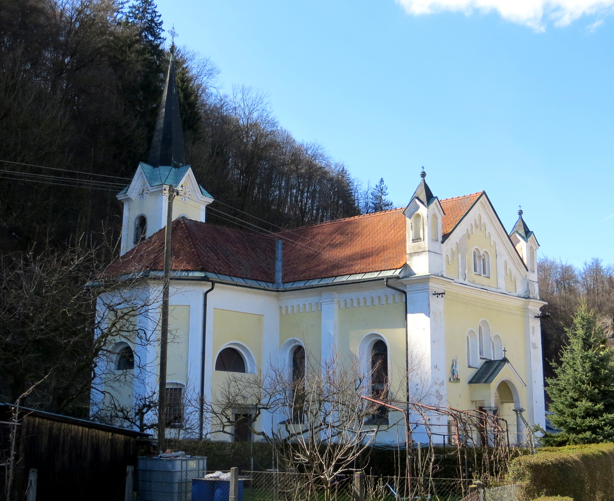 Saint Florian's Church in Trzin, Municipality of Trzin, Slovenia